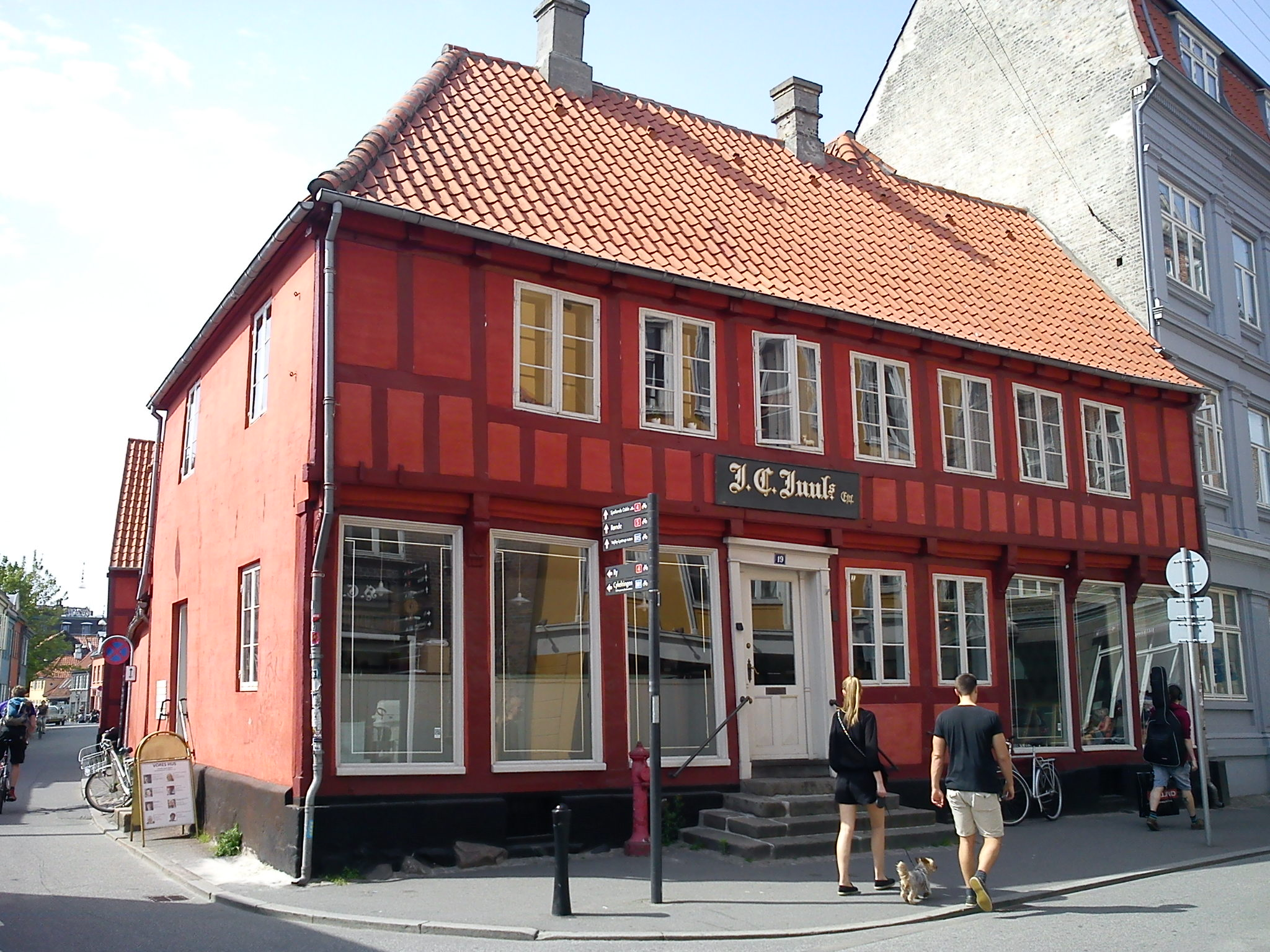 Juuls Farvehandel (a paint shop), Mejlgade nr. 19. The building is named Juuls Gård and has been erected in several stages spanning many centuries. The earliest constructions dates to c. 1600. The front-house seen here, dates to the beginning of the 1600s. (source: ArkArk.dk)